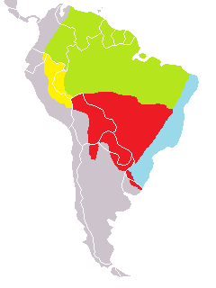 Range map of Tamandua tetradactyla. Based on: Virginia Hayssen: Tamandua tetradactyla. In: Mammalian Species 2011, Nr. 43, S. 64-74. Green: Tamandua tetradactyla nigra Yellow: Tamandua tetradactyla quichua Red: Tamandua tetradactyla straminea Blue: Tamandua tetradactyla tetradactyla